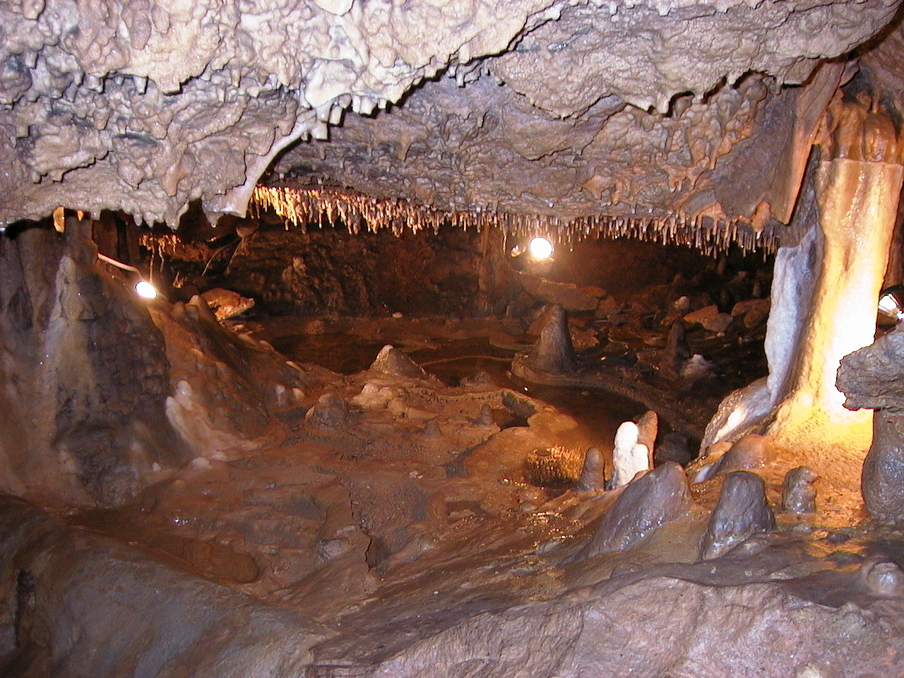 Cave part fairyland at Seneca Caverns in Riverton, West Virginia